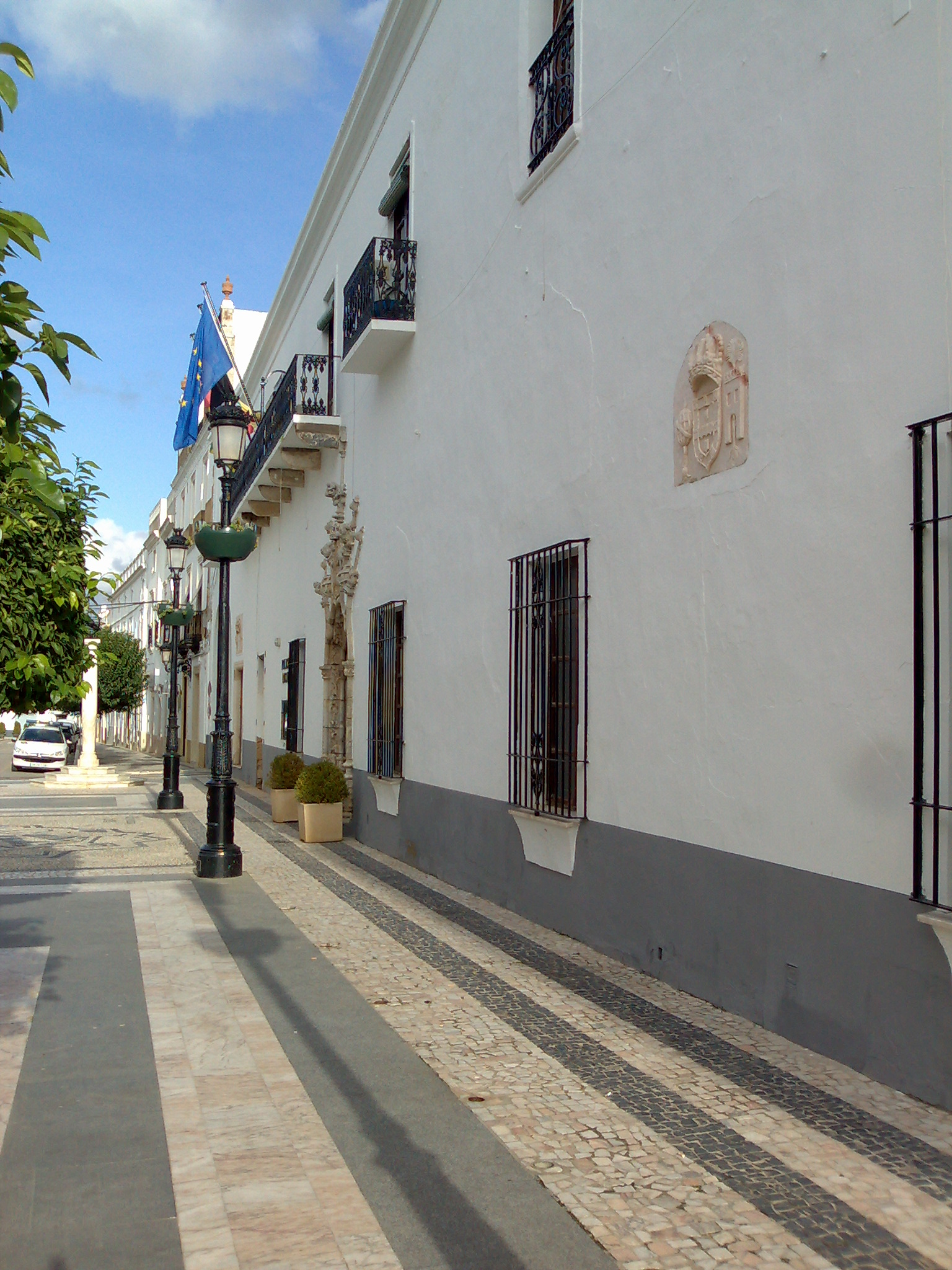 Olivença